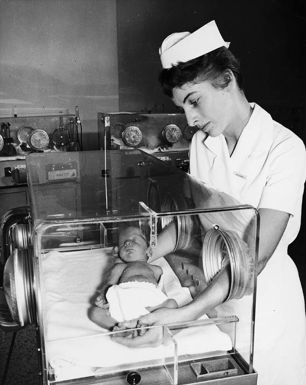 Miss Haxby is holding a newborn baby that is in an incubator at the Toronto Western Hospital in Toronto, Ont